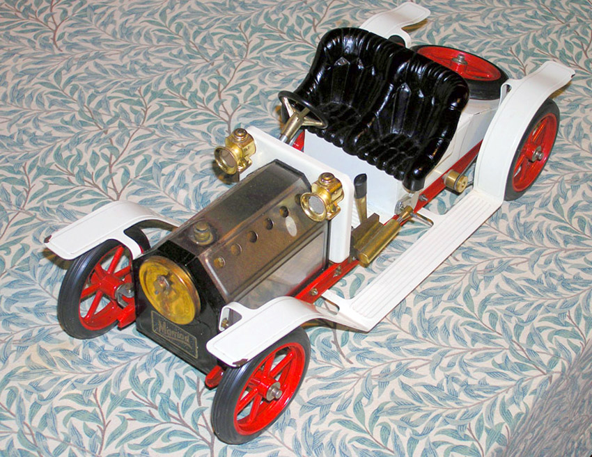 An indoor shot of an early SA1 Mamod Steam Roadster taken on a patterned table cloth.